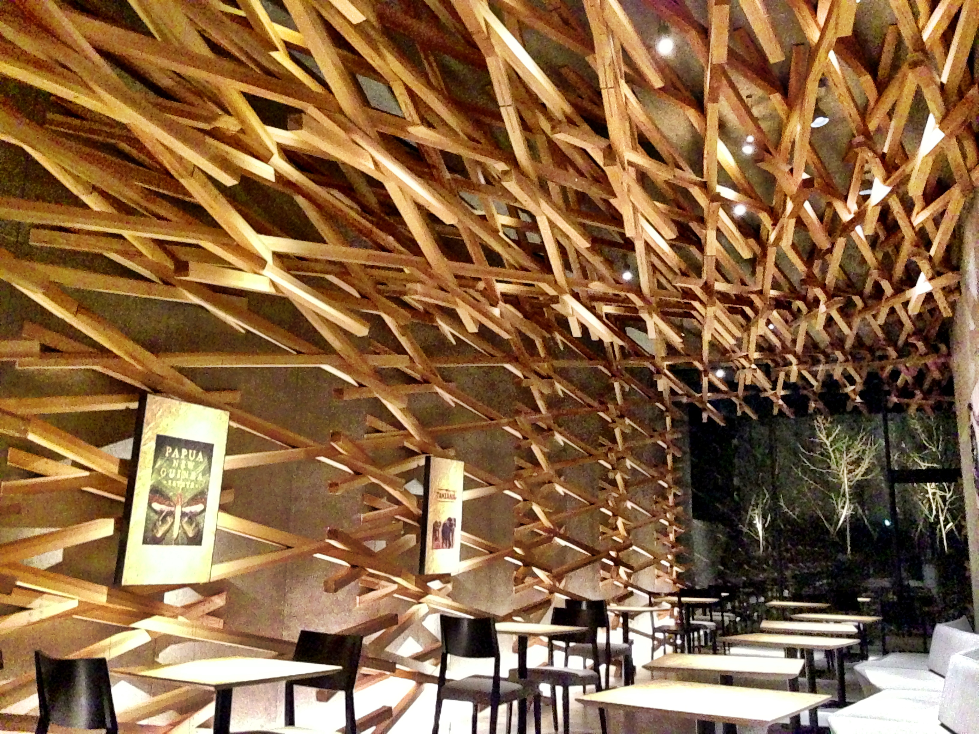 Very cool-looking! [1] [2]